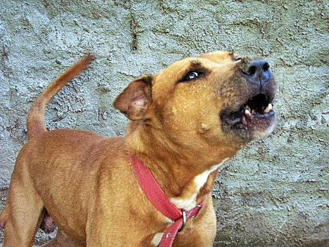 My pet